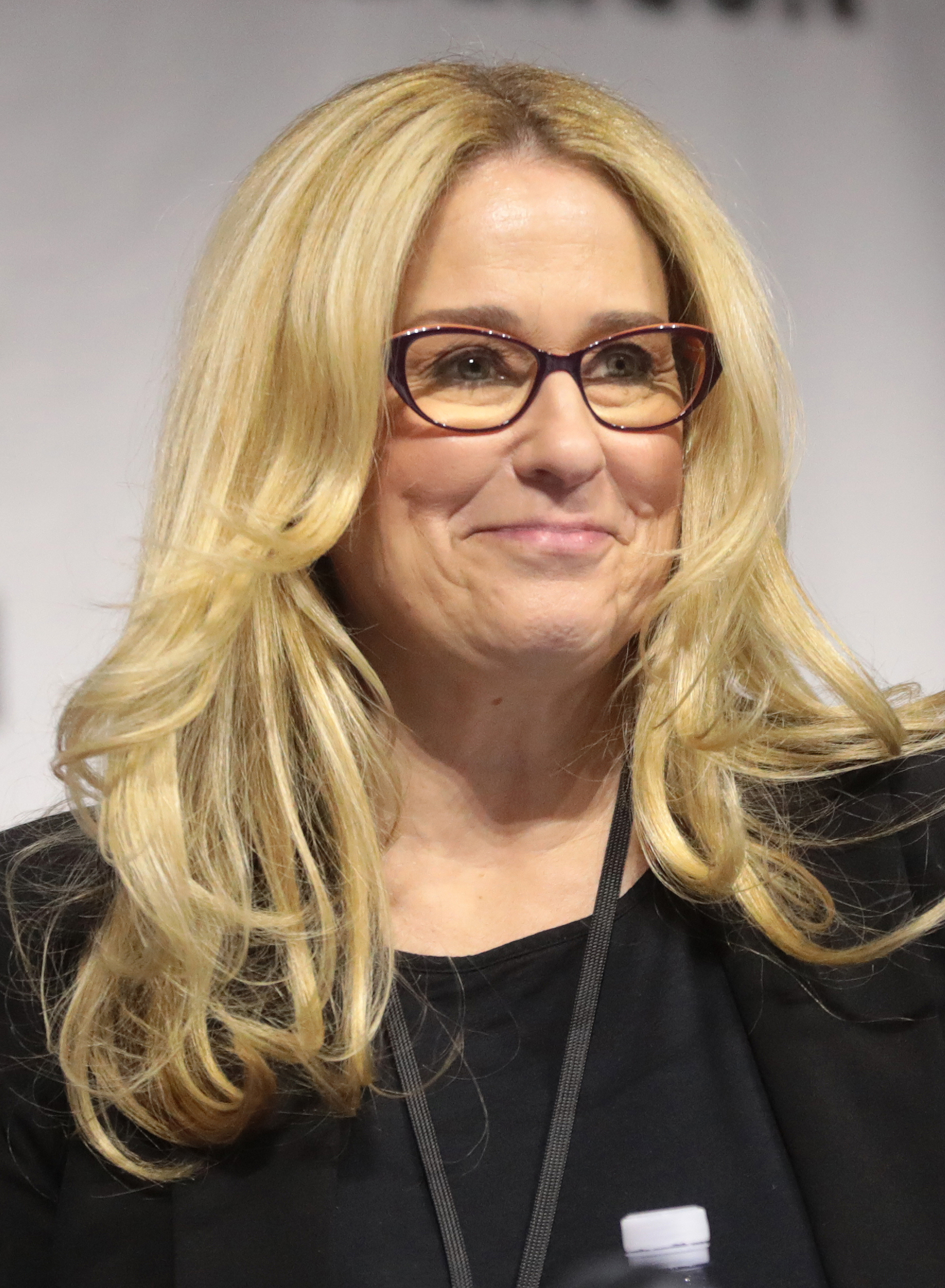 Susan Eisenberg at the 2019 WonderCon in Anaheim, California.